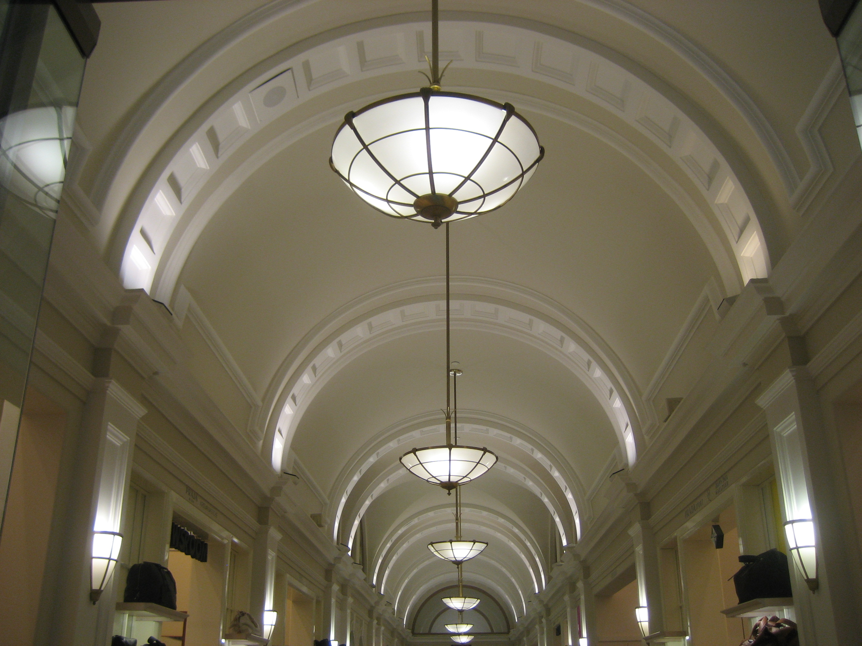 Ceiling light fixtures